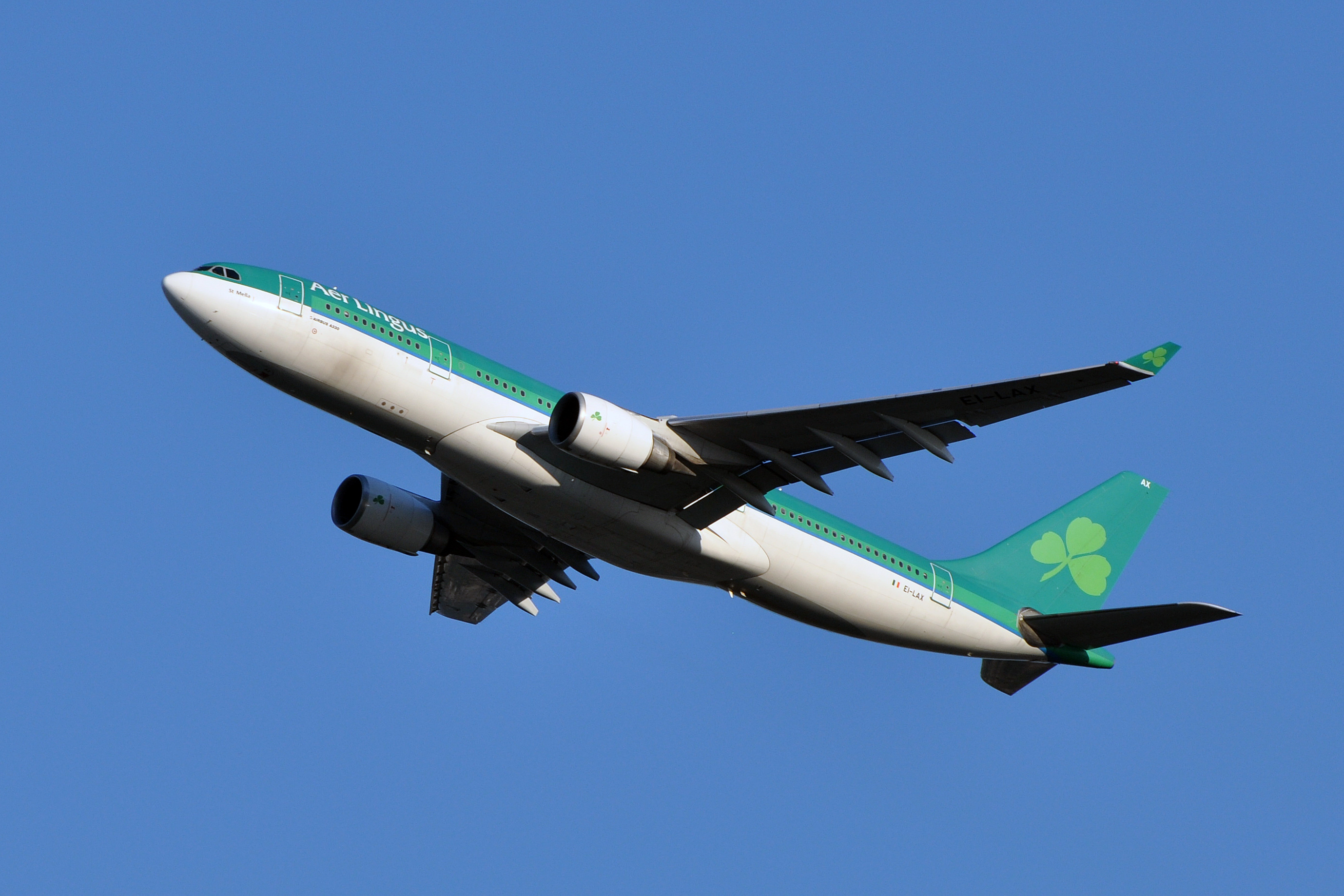 Aer Lingus Airbus A330-202 EI-LAX taking off from Washington Dulles International Airport.